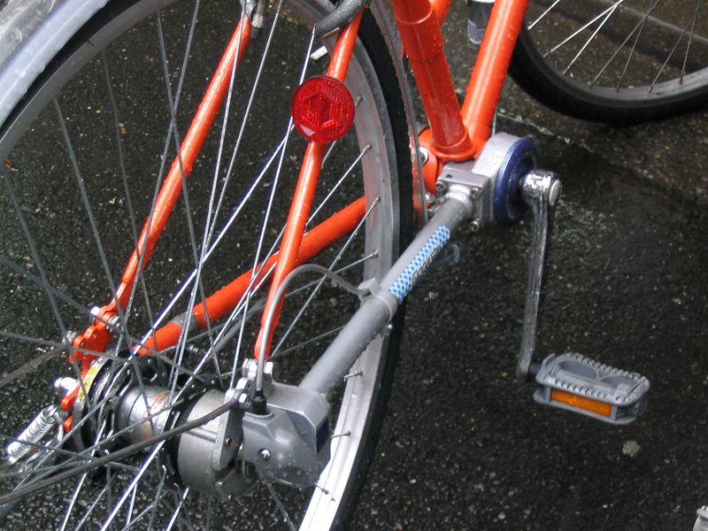 I took this picture shaft-driven bicycle on street in Japan, August 2003.